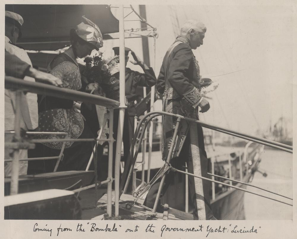 Sir Hamilton John Goold-Adams disembarking from the Howard Smith passenger ship Bombala and boarding the Queensland Government yacht Lucinda in Brisbane in 1915.Sir Hamilton John Goold-Adams was Governor from 1915 to 1920. Lady Elsie Goold-Adams is behind him.